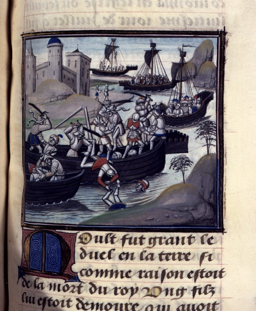 Bataille d'Alexandrie (1173); Battle or siege of Alessandria.